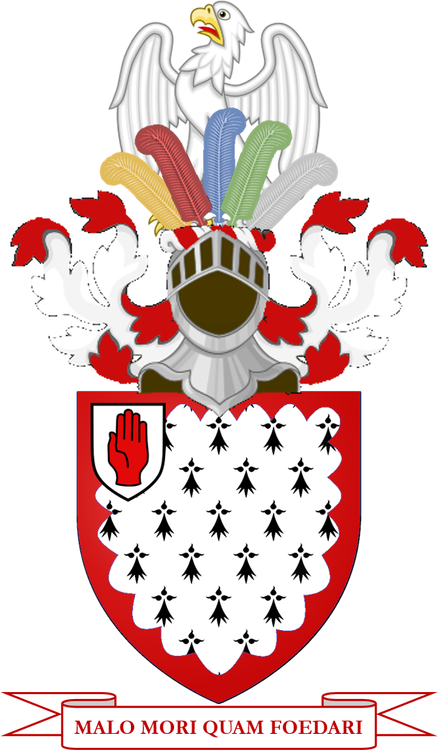 The armorial achievement of the Barnewall baronets of Crickstown Castle